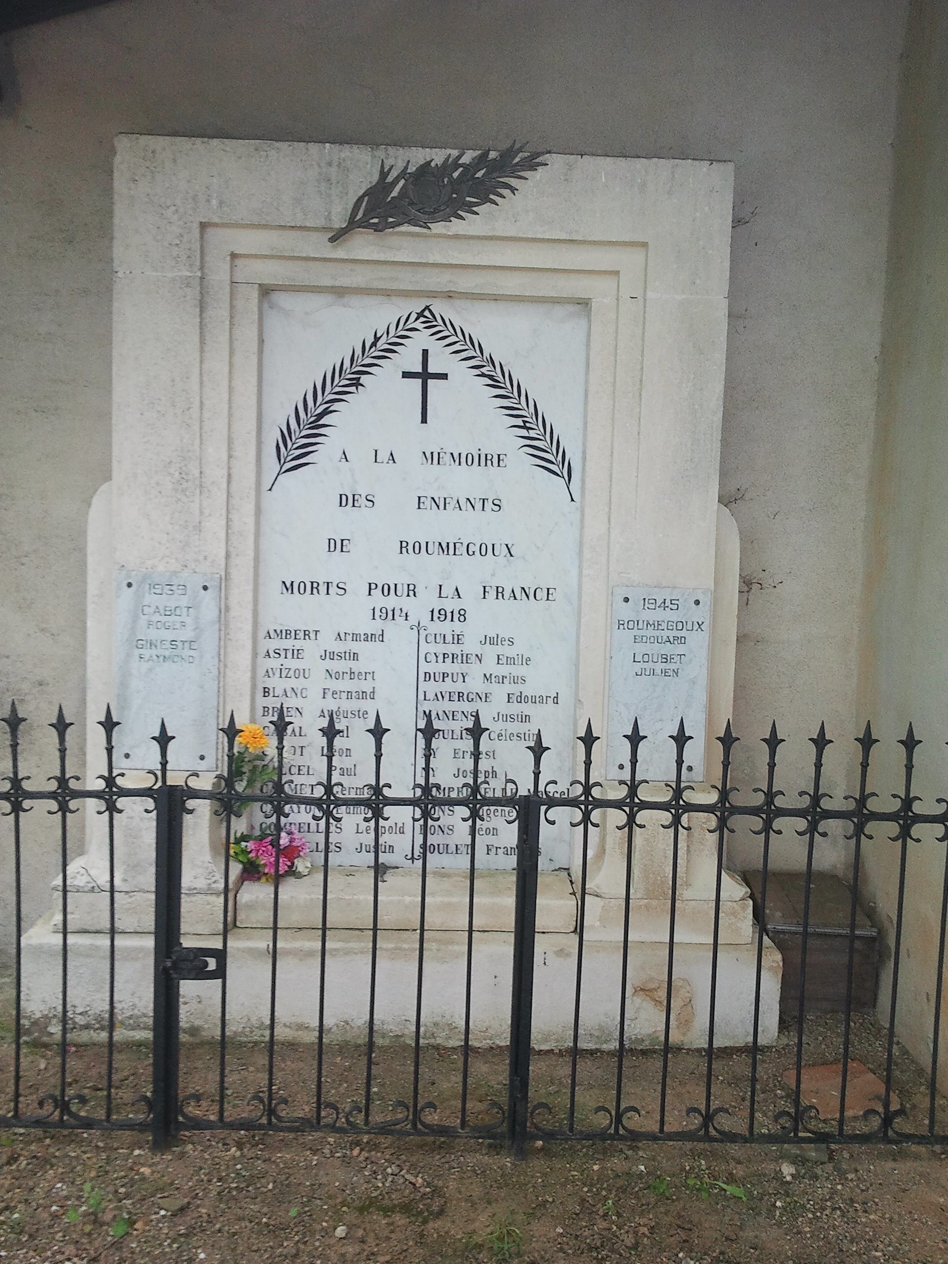 The war memorial in Roumégoux (Tarn)